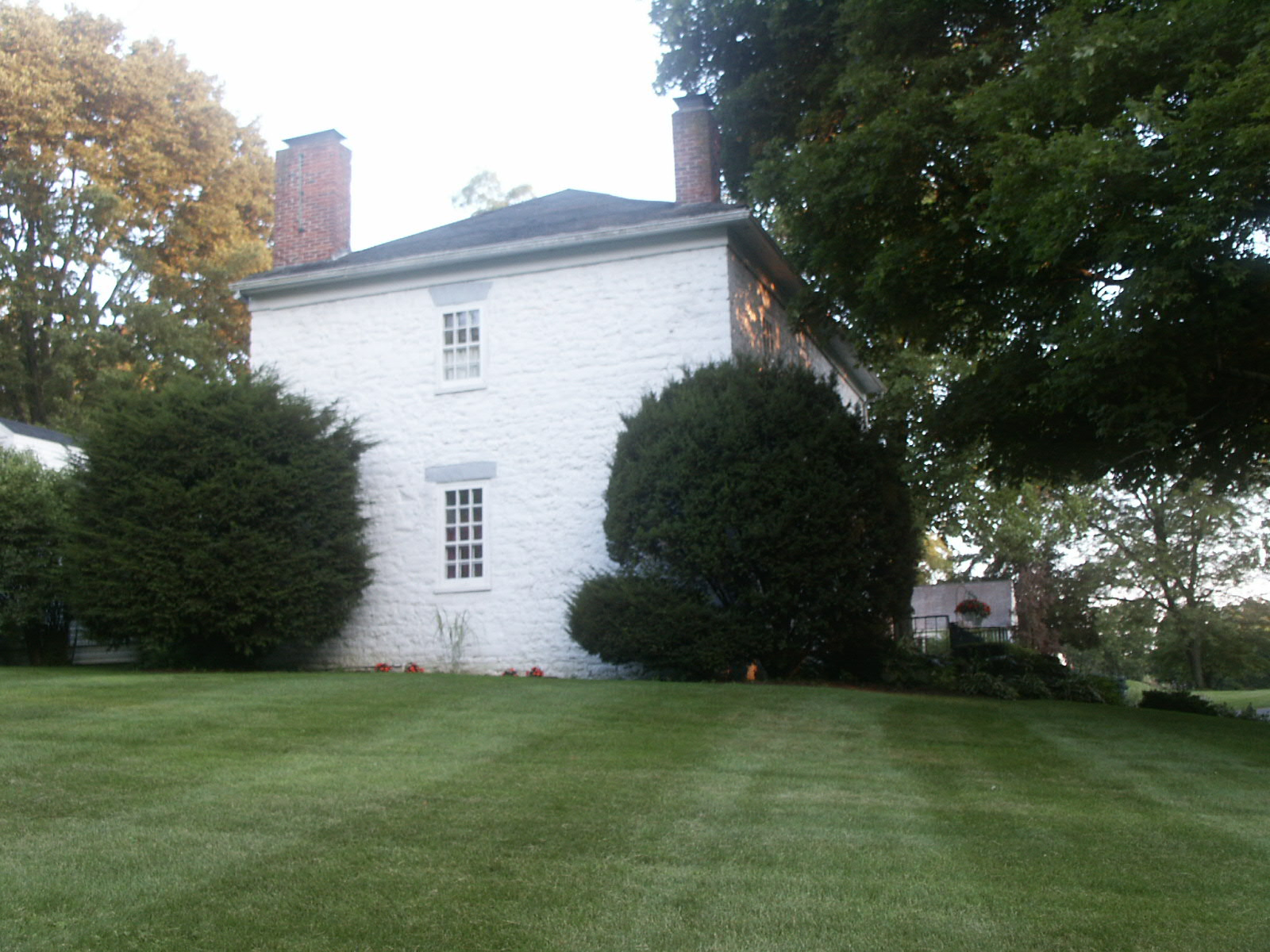 John Minor Dye 'Stonecrest' house 1812